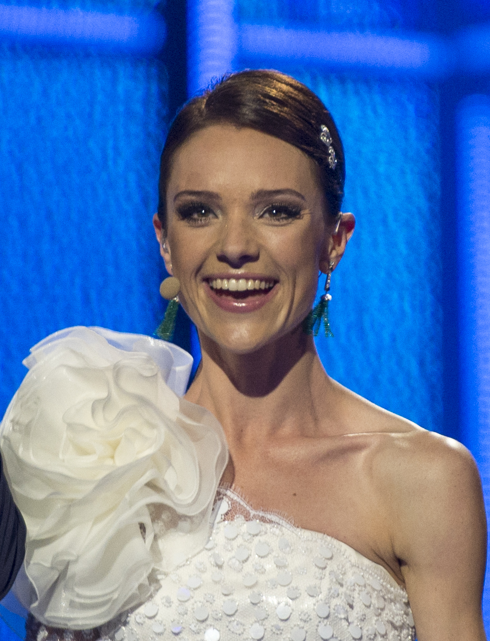 Lise Rønne during the first dress rehearsal of the first semifinal of the Eurovision Song Contest 2014.